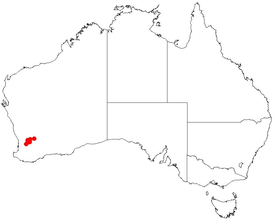 Hakea aculeata Occurrence data downloaded from Australasian Virtual Herbarium on 22 November 2018 using